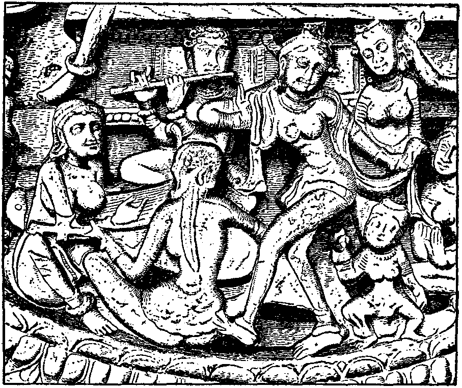 Drawing of a stone sculpture. "A transverse flute is seen on Indian sculptures of the Gandhara school showing Greek influence, and dating from the beginning of our era (fig. 3)."